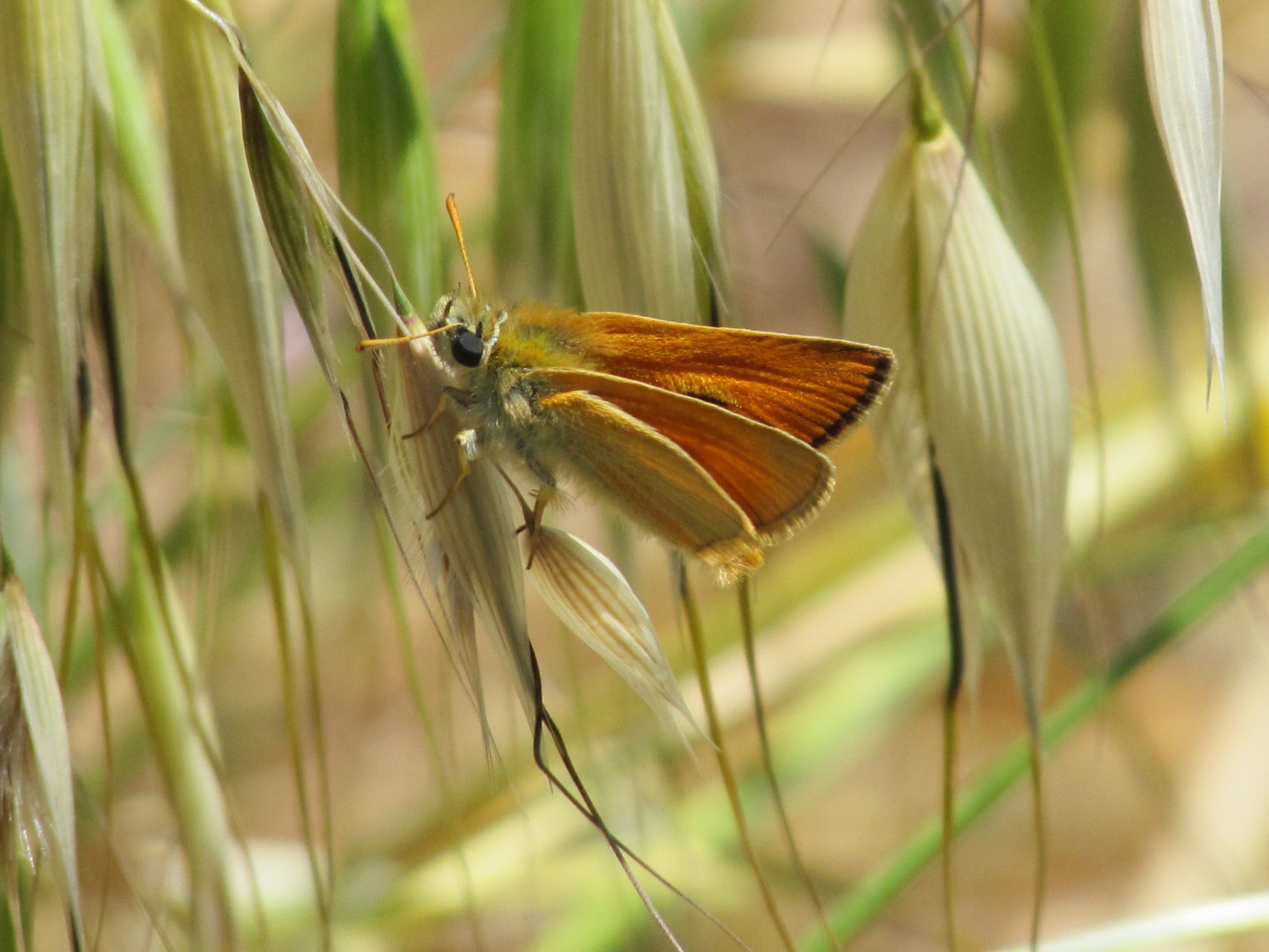 הספרית הנשרן (Thymelicus sylvestris) ירושלים הגבעה הצרפתית 23 באפריל 2011